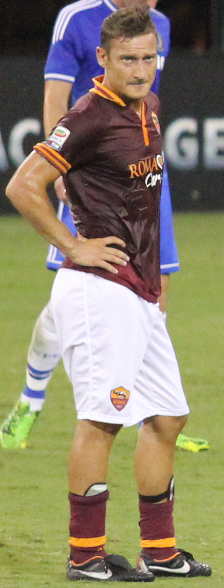 Chelsea vs. AS Roma at RFK Stadium, Washington, DC August 10, 2013